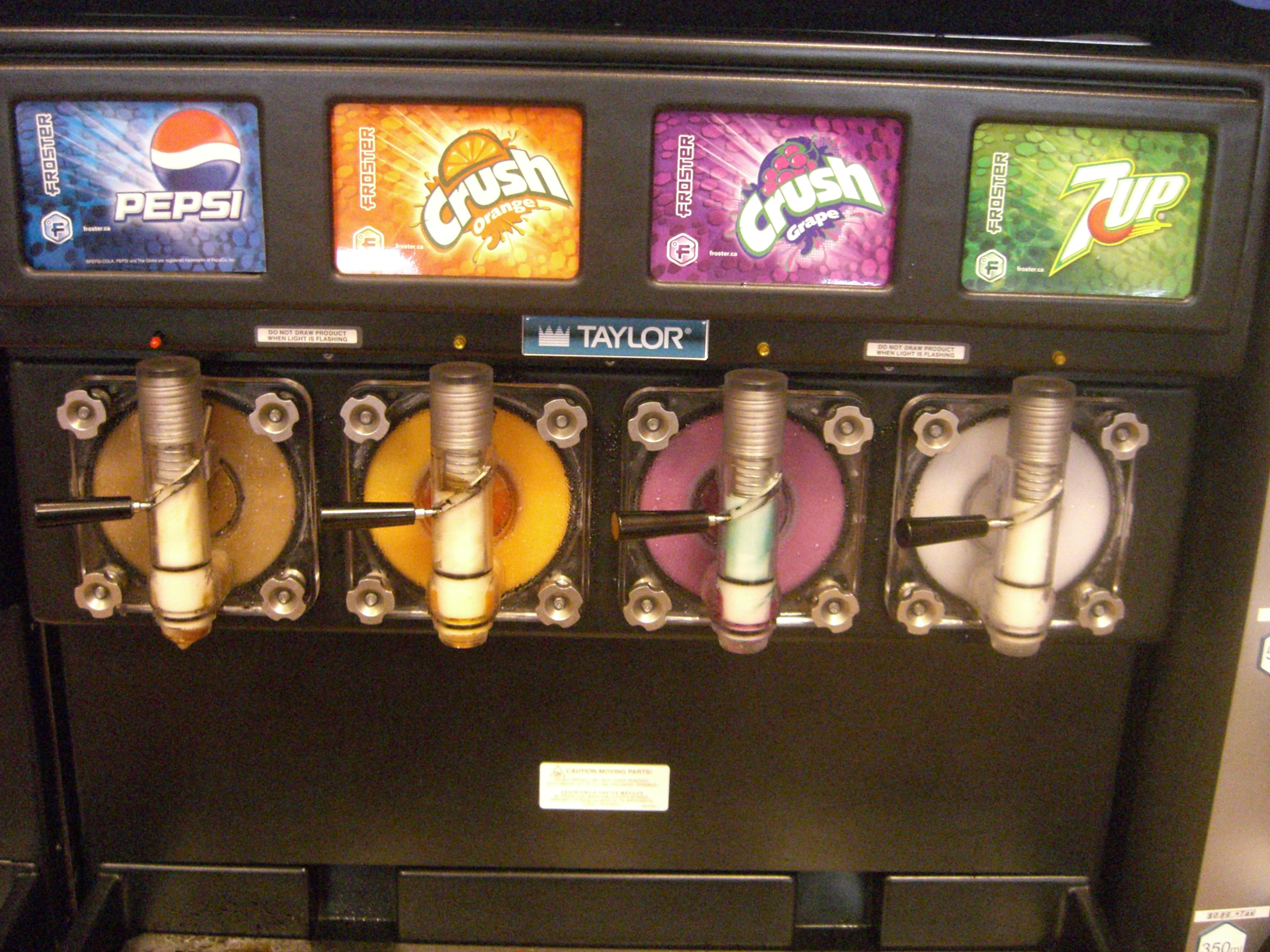 myke waddy, Edmonton Alberta Canada. August 9th 2006